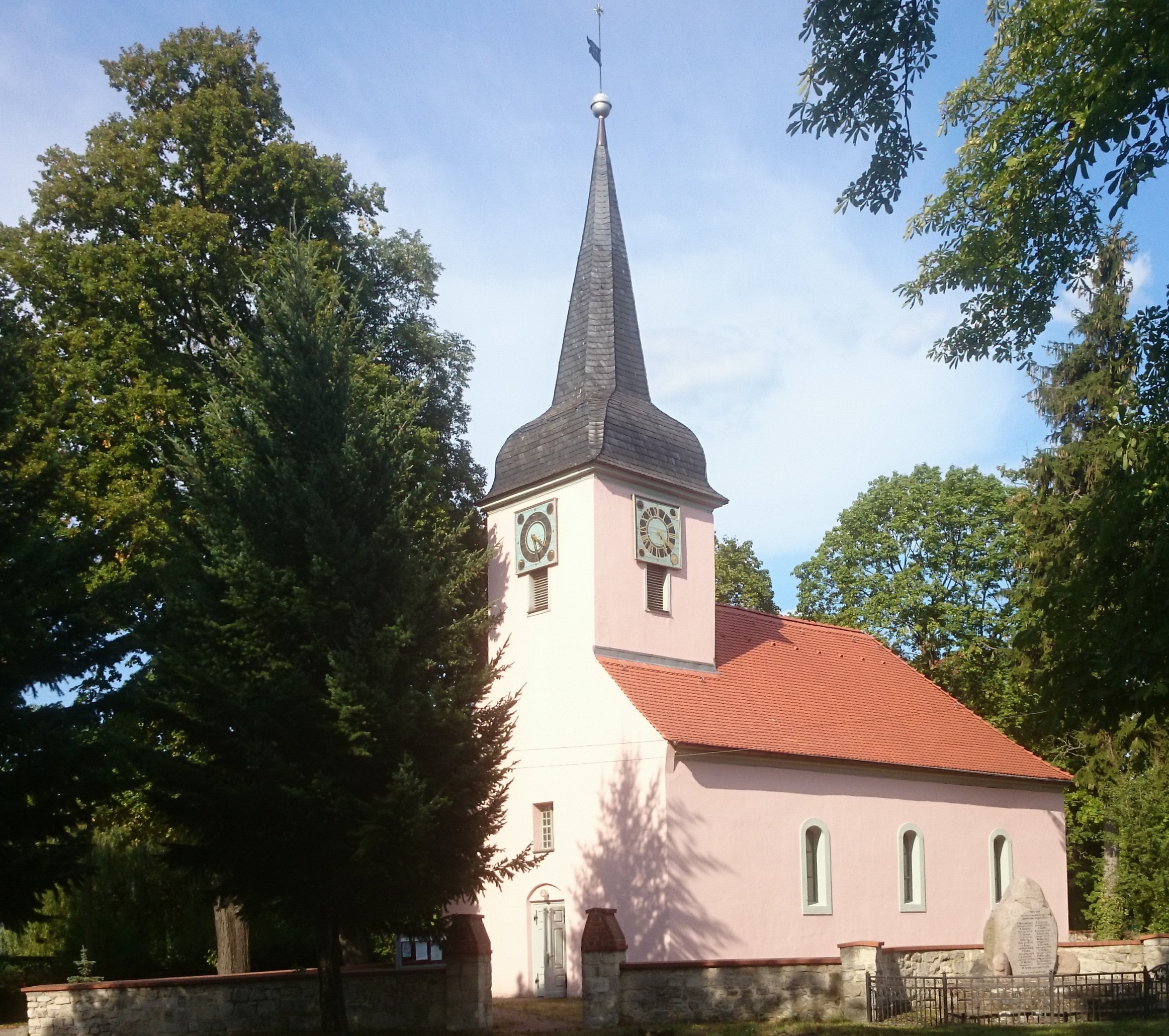 Berlin in late summer